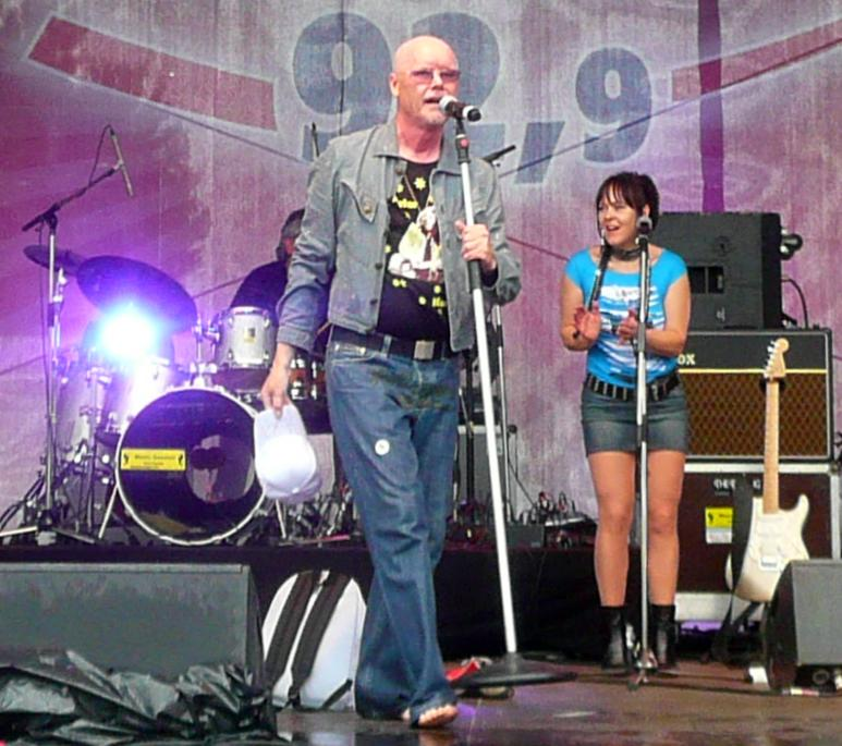 Harpo (Jan Harpo Torsten Svensson) on the Danube Island Festival 2009 in Vienna, Austria